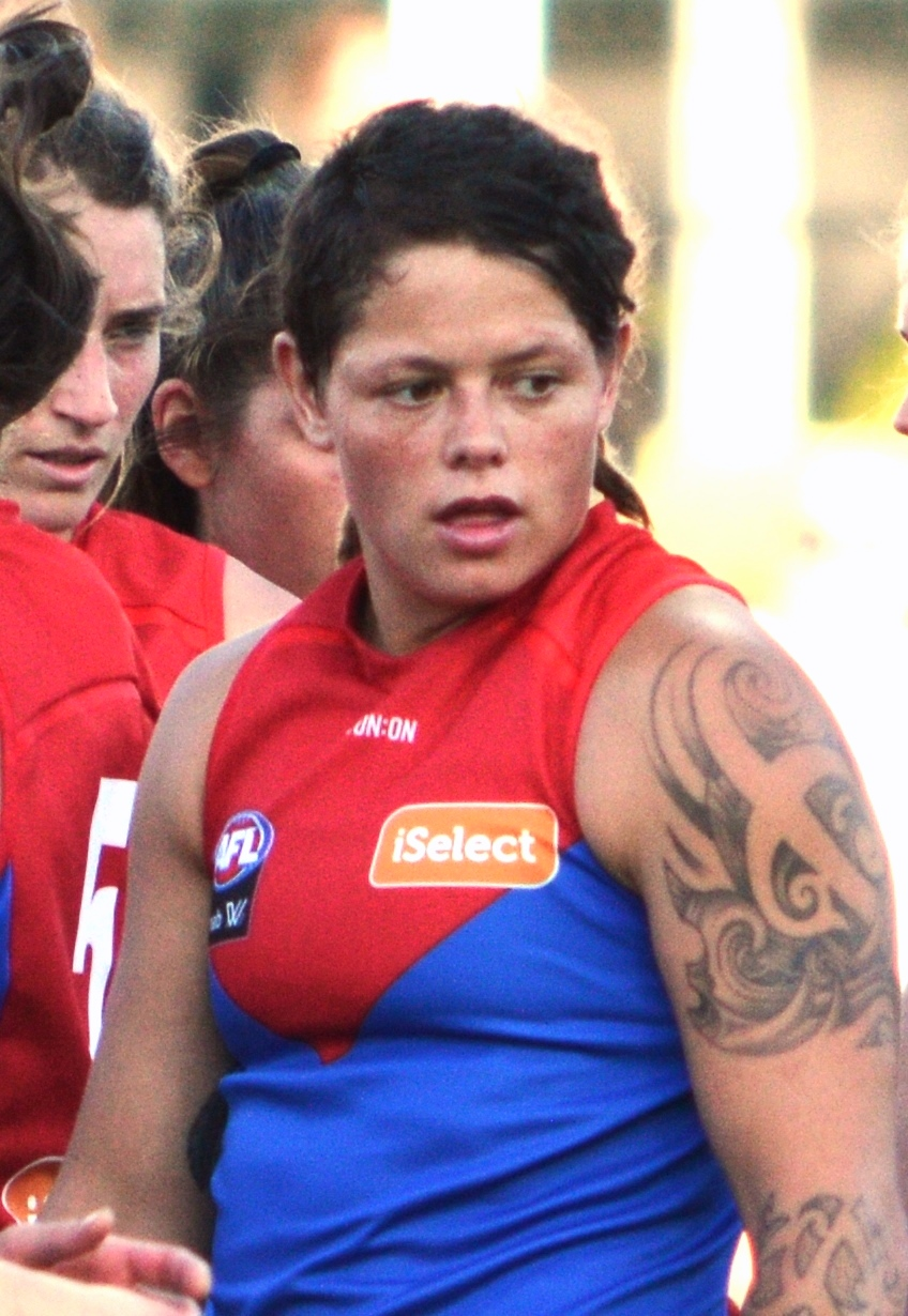 Richelle Cranston at the AFL Women's practice match between Collingwood and Melbourne in January 2018